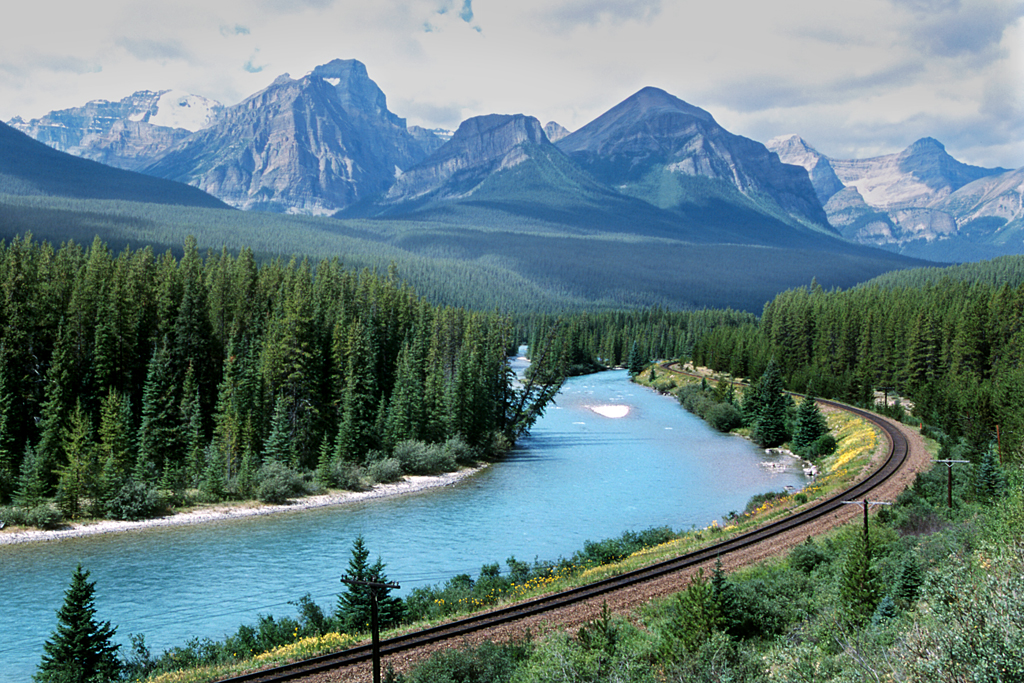 Following the Bow river from Lake Louise, this curve on the Canadian Pacific Railway was named after Nicholas Morant – a Canadian photographer who worked for the railroad Company. This shot was taken from highway 1A and shows the Canadian rockies in the background. The river's source is the Bow Glacier in the Wapta Icefield and it flows South to Banff and ultimately winds it's way to the Hudson Bay.